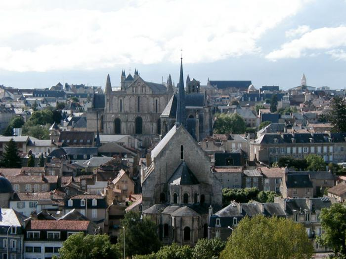 Picture by Mario Vercellotti (